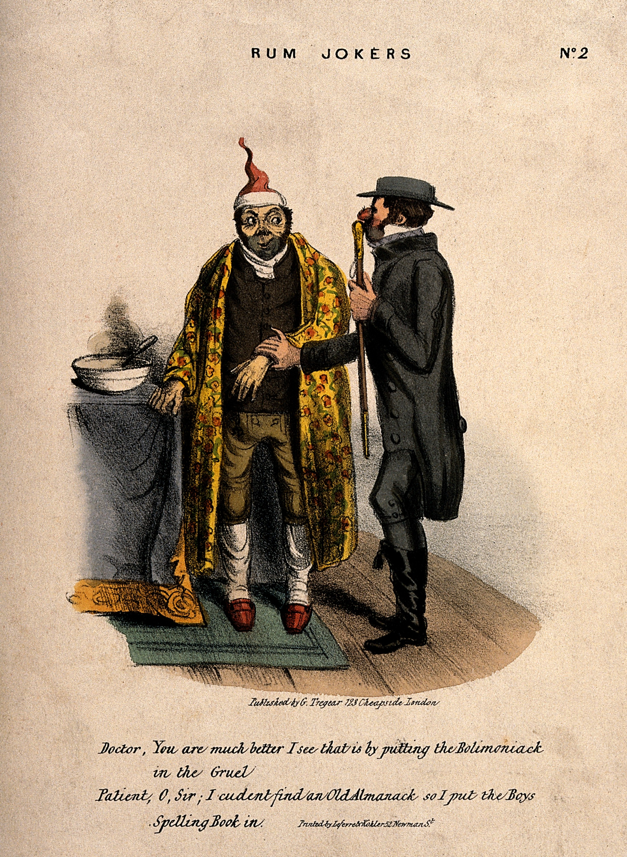 Topic-LCSH: Physicians. Patients. Costume -- Great Britain -- 19th century. Genre/Technique: Caricatures. Lithographs.